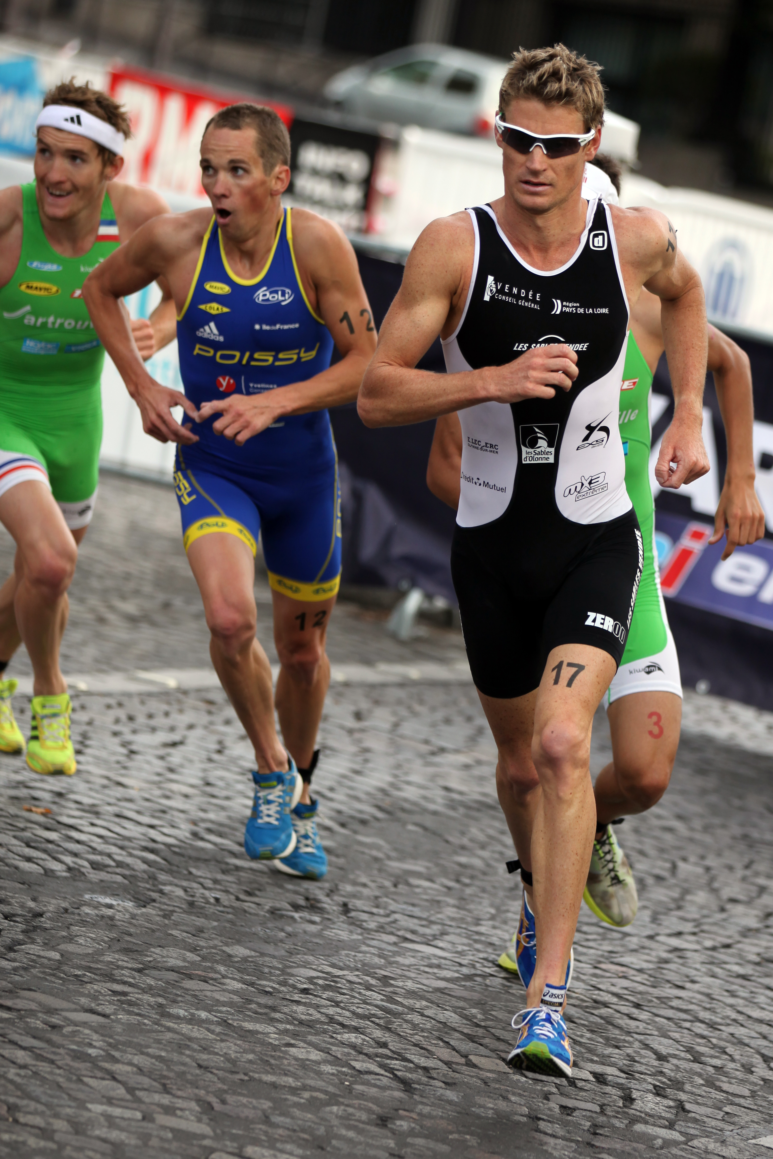 Brad Kahlefeldt and Gregory Rouault at the Club Championship Series triathlon (Grand Prix de Triathlon Lyonnaise des Eaux)) in Paris, 2011.